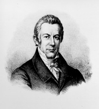 William Findlay